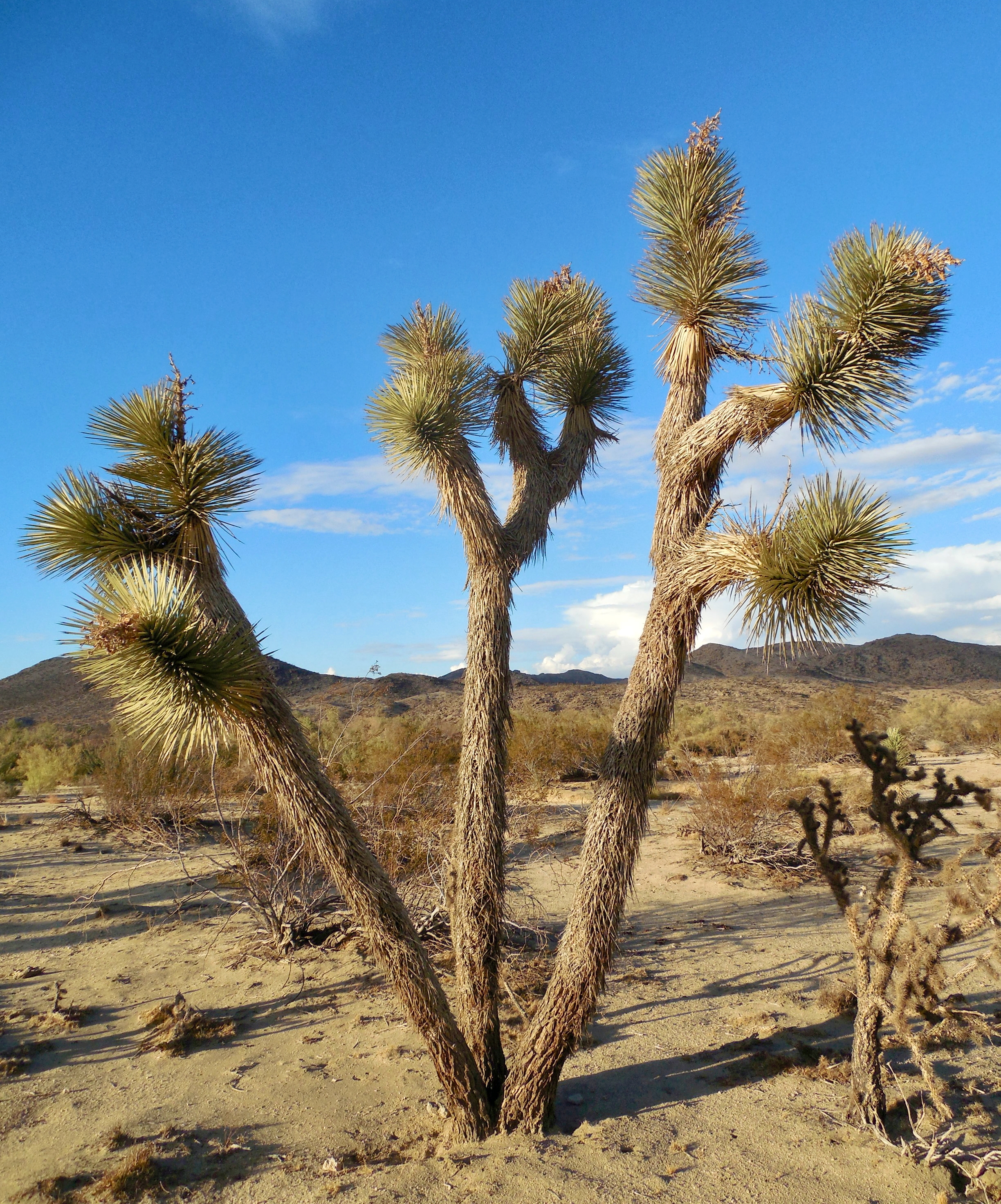 Joshua Tree in Joshua Tree, California